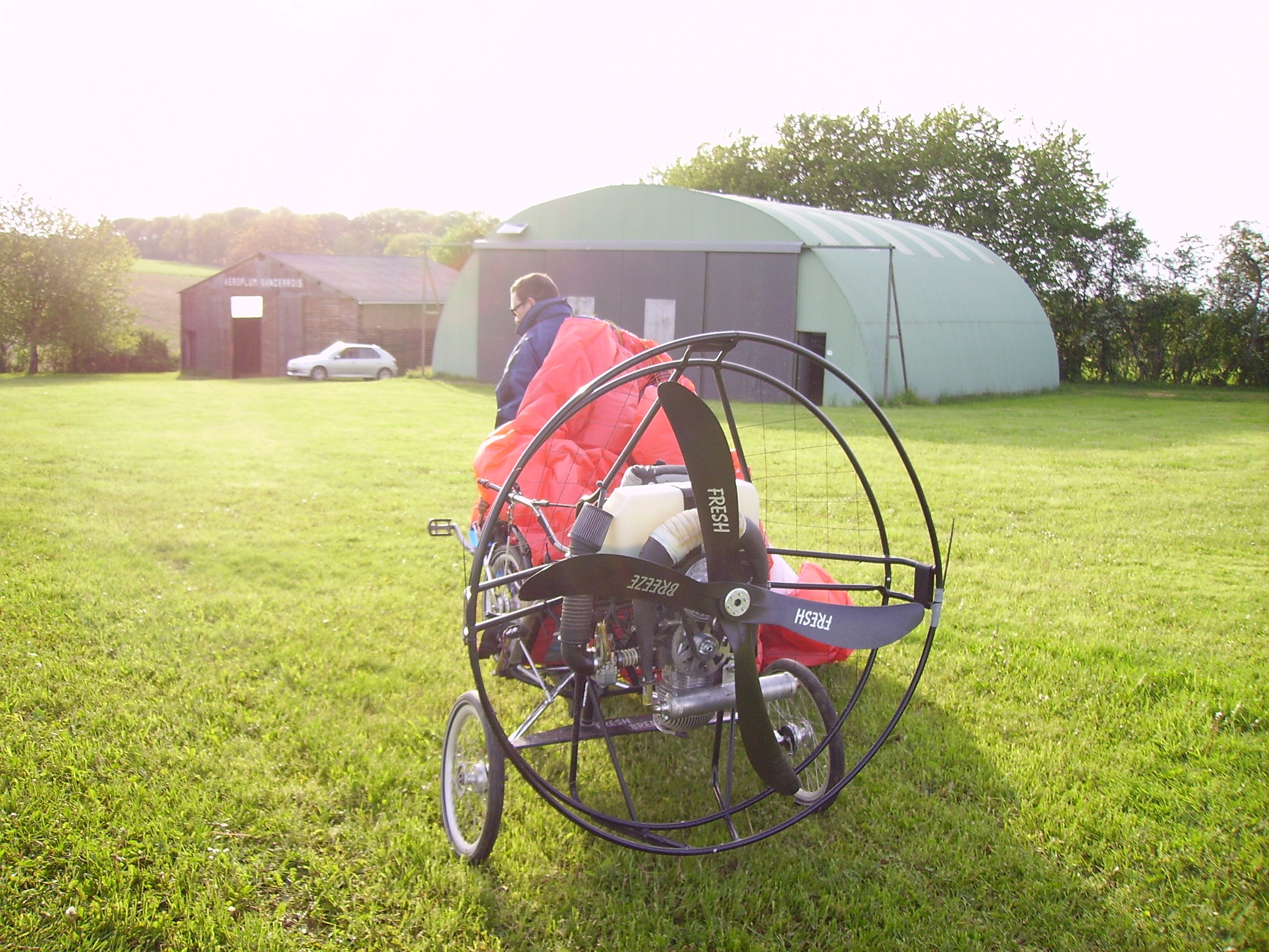 Fresh Breeze paramotor equipped with Hirth engine. Sury-en-Vaux aerodrome, Cher, France.